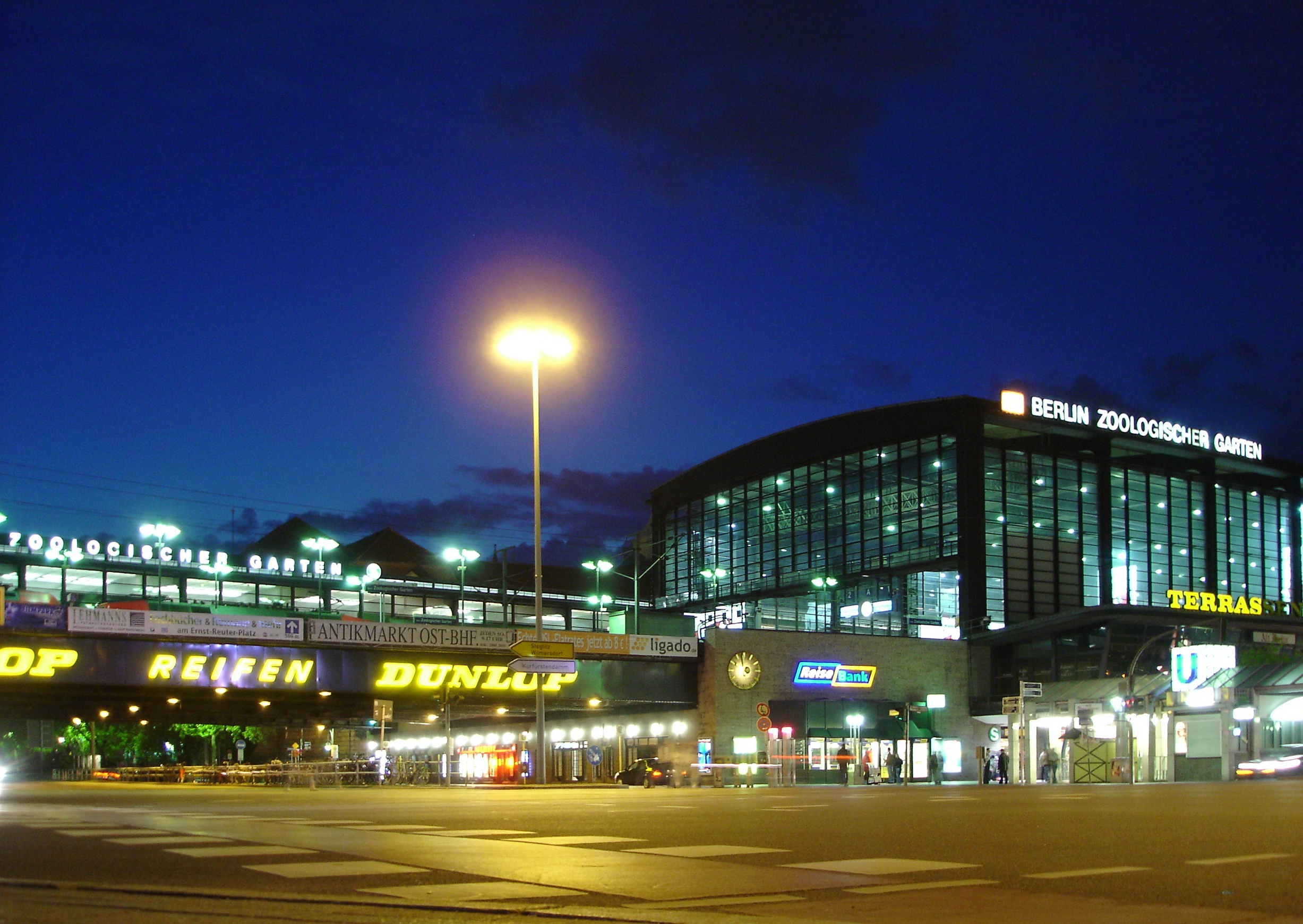 Bahnhof Zoo in Berlin at dusk